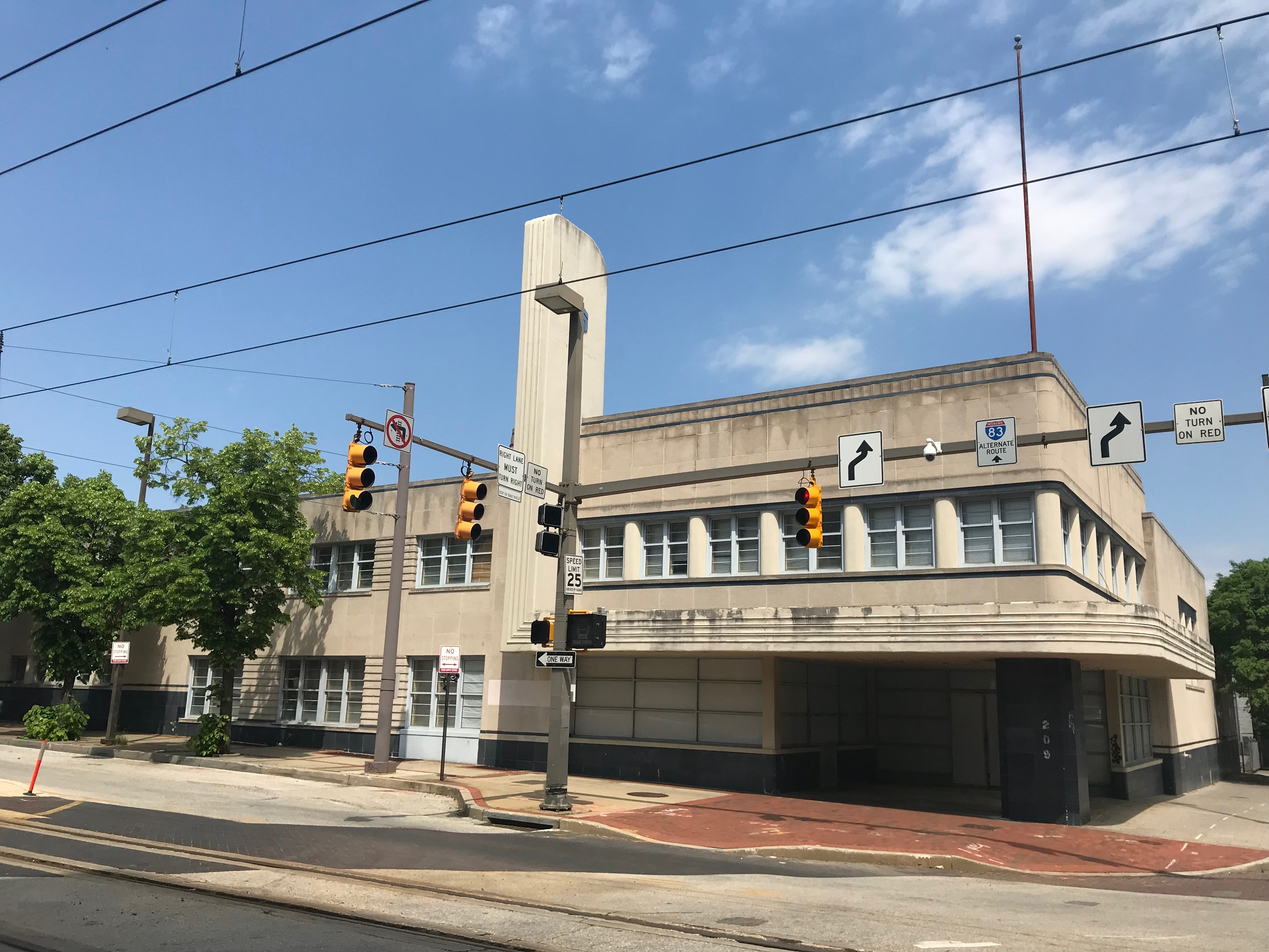 Photograph by Eli Pousson, 2018 May 11.